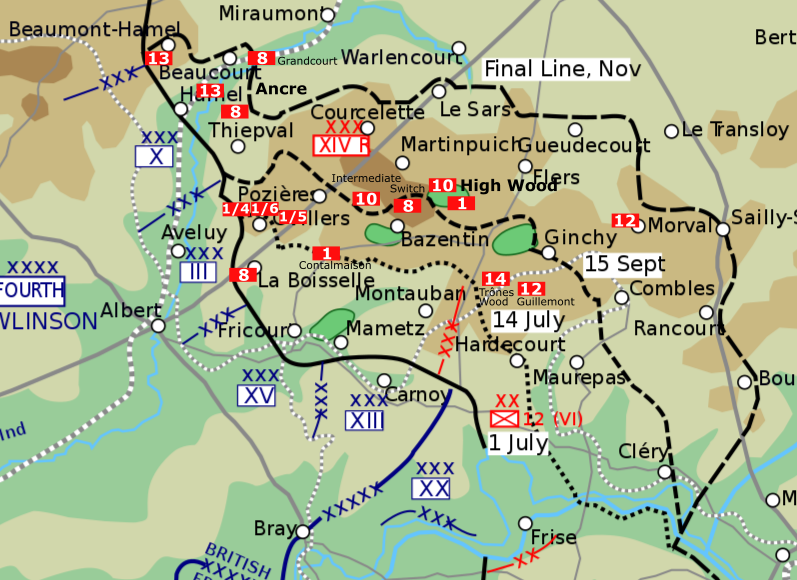 Map of the Battle of the Somme showing locations where battalions of the Gloucestershire Regiment were in action